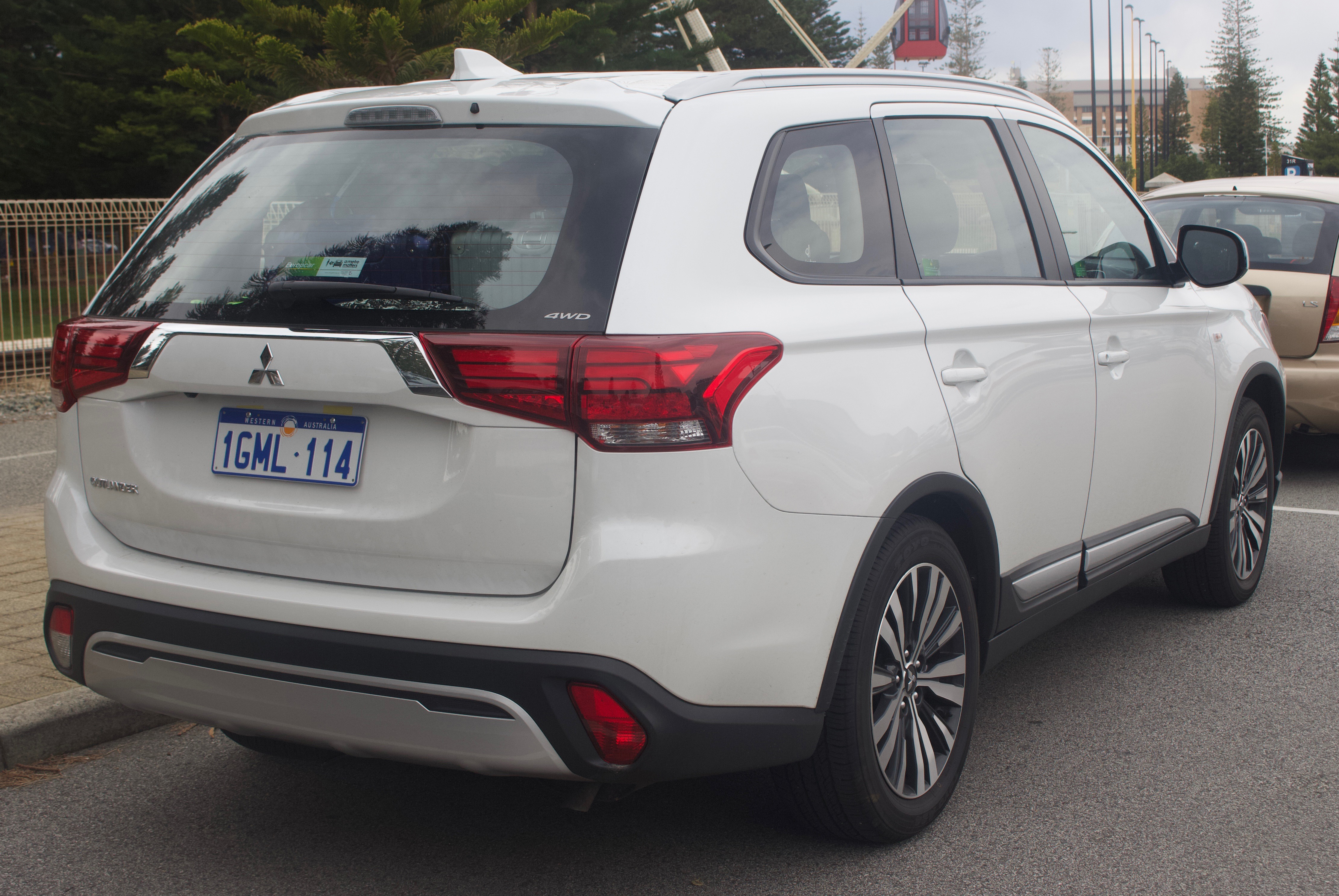 2018 Mitsubishi Outlander (ZL) ES 4WD wagon. Photographed in Fremantle, Western Australia, Australia.